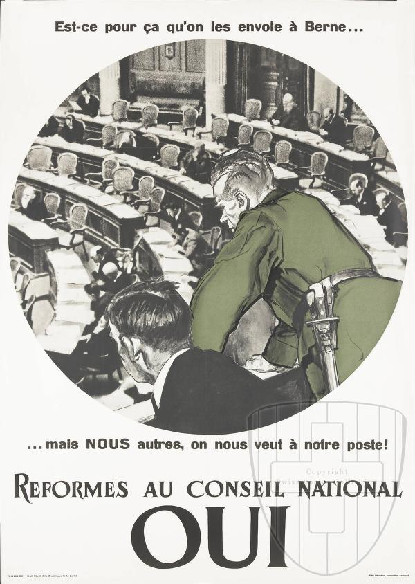 Advertisement for swiss votation of 1942 regarding the reform of the National Concil